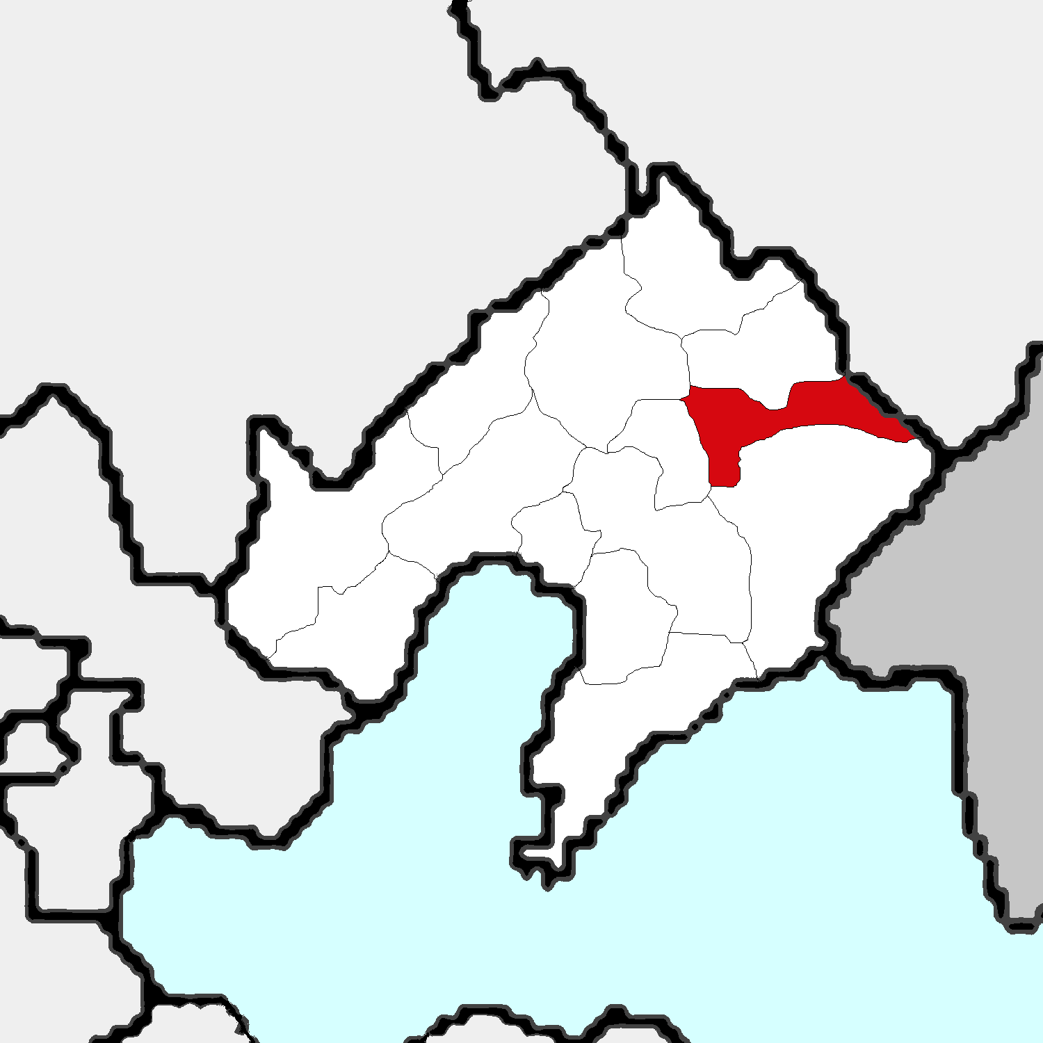 Maps of Liaoning Province, China